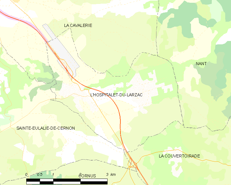 Map commune FR insee code 12115.png - L'Hospitalet-du-Larzac